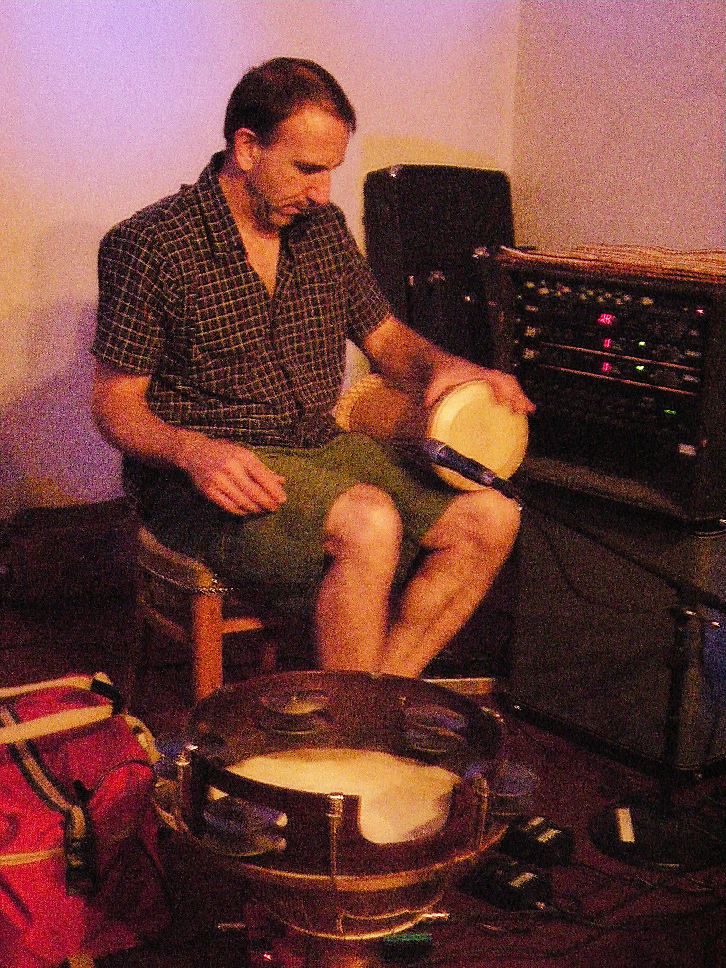 Seattle-based musician Greg Gilmore performing with Steve Fisk and Peter Randlette (not shown) at the 14th Olympia Experimental Music Festival, Olympia, Washington.